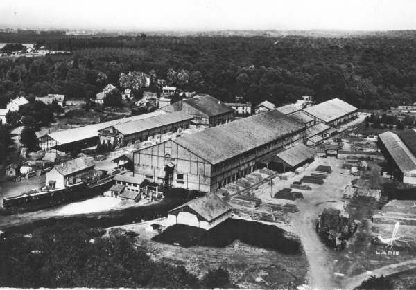 Aerial view of the tuilerie, Pargny-sur-Saulx